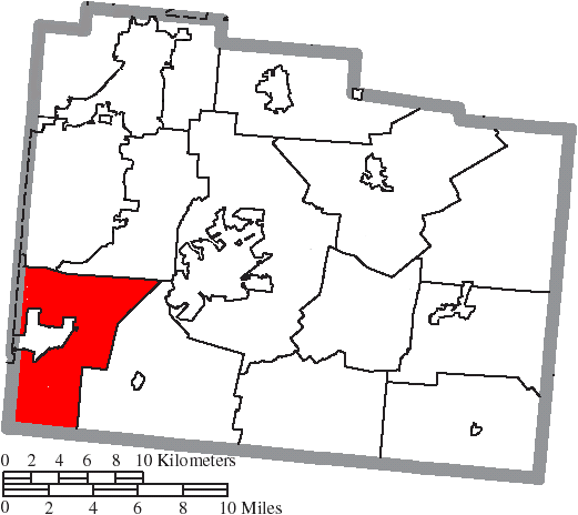 Map of the municipal and township boundaries of Greene County, Ohio, United States, as of the 2000 census, with the location of Sugarcreek Township highlighted. Township borders are shown only in unincorporated areas in order to differentiate incorporated and unincorporated areas more clearly.